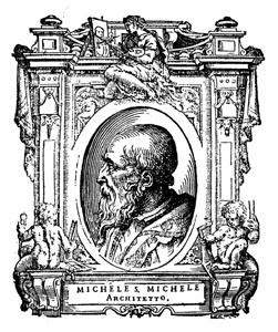 Illustratio from "Le Vite" by Giorgio Vasari, edition of 1568. For the artist portrayed see filename